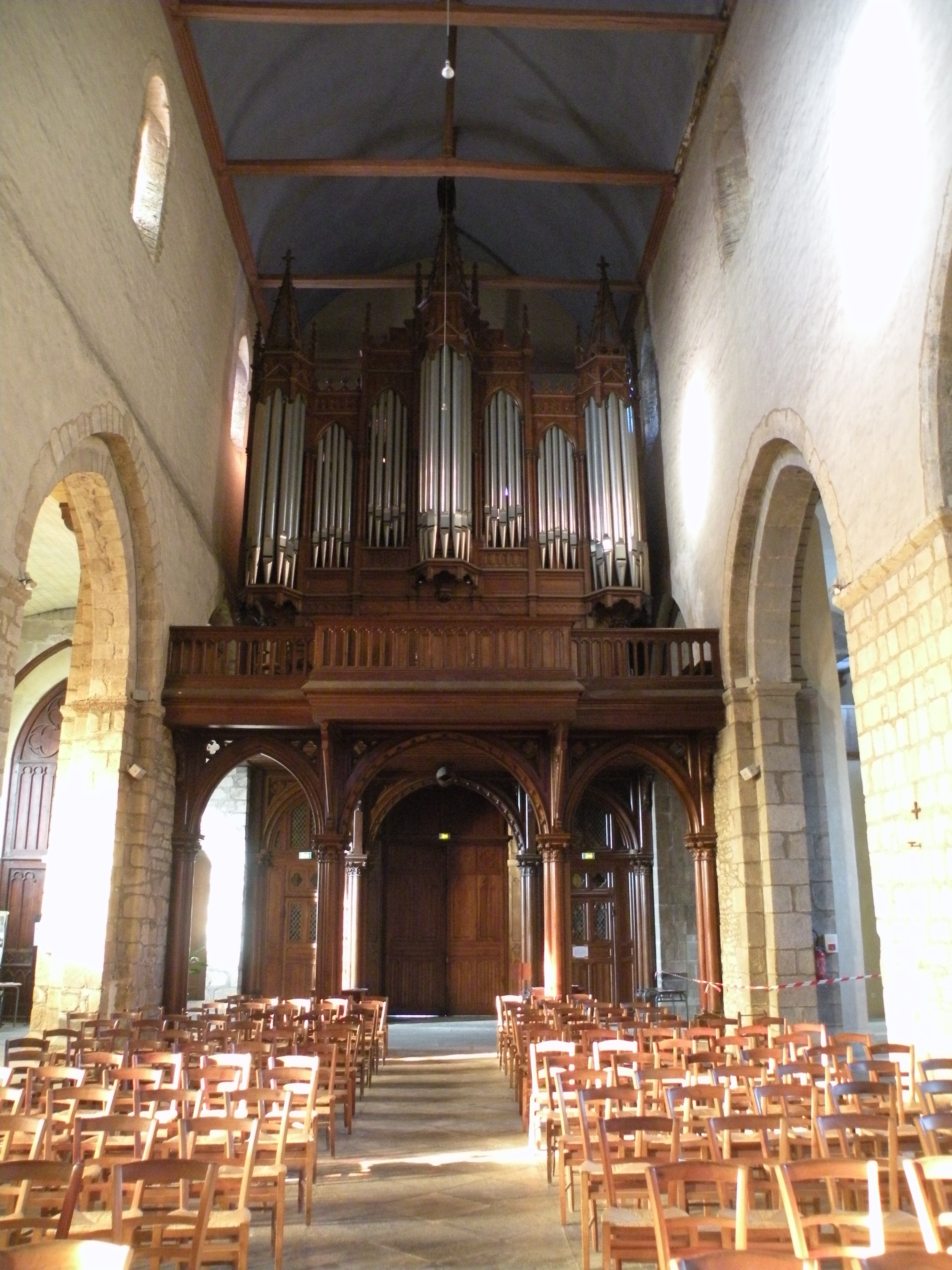 Pipe organ of Notre-Dame-en-Saint-Melaine church in Rennes.